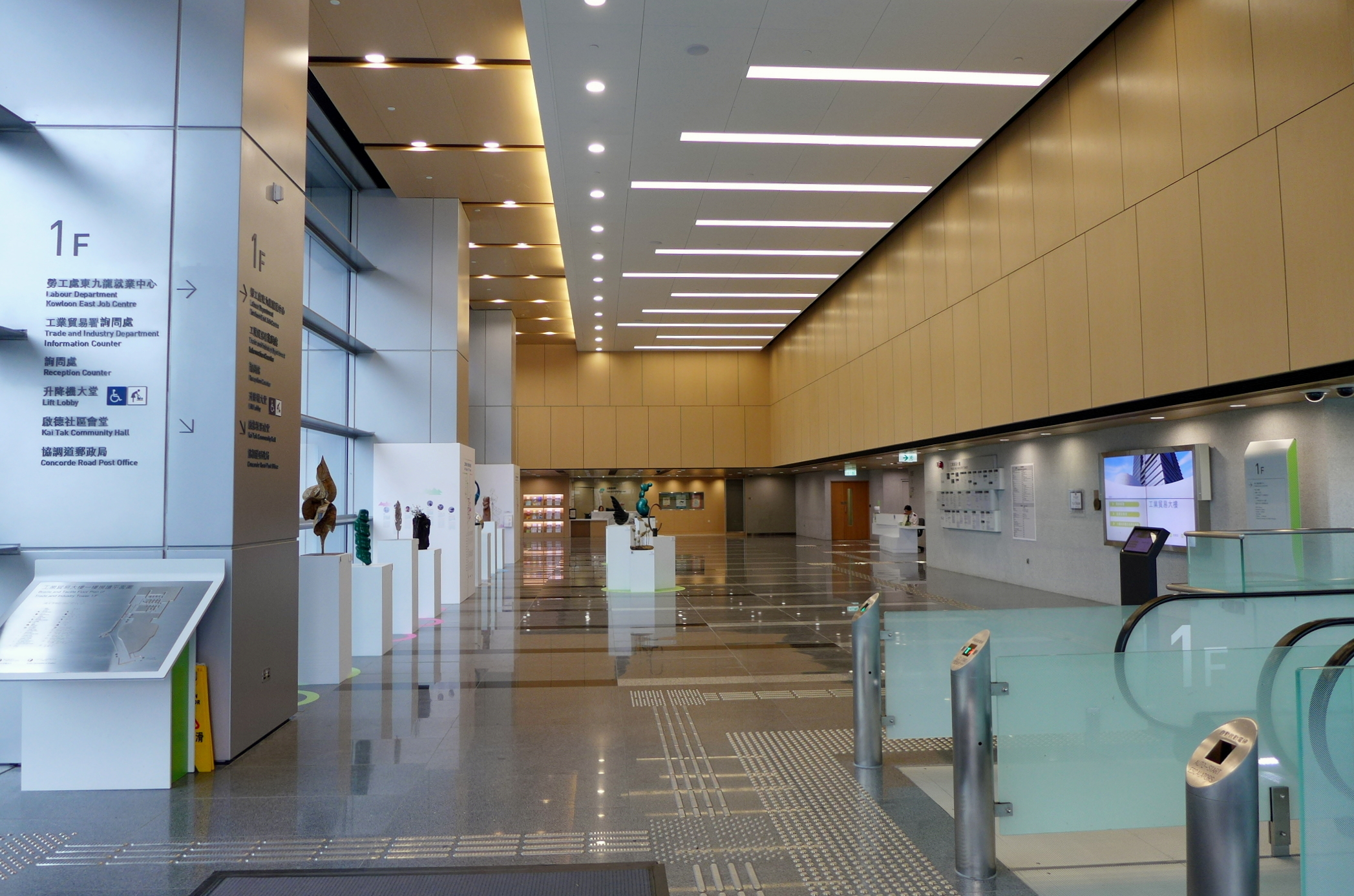 Trade and Industry Tower Level 1 Lobby